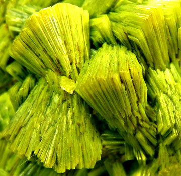 Autunite Locality: Daybreak Mine (Dahl lease), Mount Kit Carson, Spokane County, Washington, USA (Locality at ) Size: small cabinet, 6.4 x 3.7 x 3.8 cm Meta-Autunite This impressive large piece with excellent color is crystallized almost all the way around the specimen, with sharp sheaves of bright yellow-green. It is a SUPER specimen! Pieces in this size range, preserved all this time, are very hard to come by. They generally came out several decades or more ago.